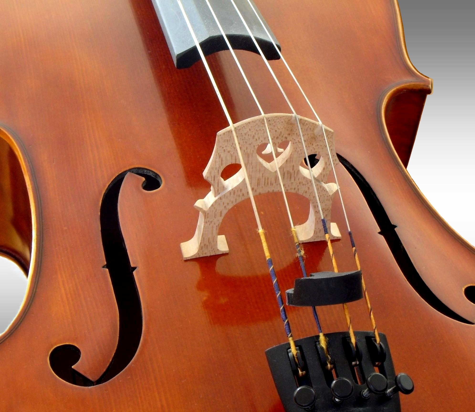 A close-up of the bridge area on a cello. Clean up of version published 2005